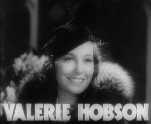 Cropped screenshot of Valerie Hobson from the trailer for the film Bride of Frankenstein.